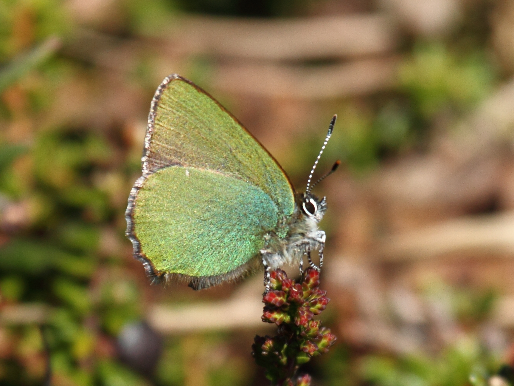 Callophrys rubi in Oldfjällen mountains, Sweden.